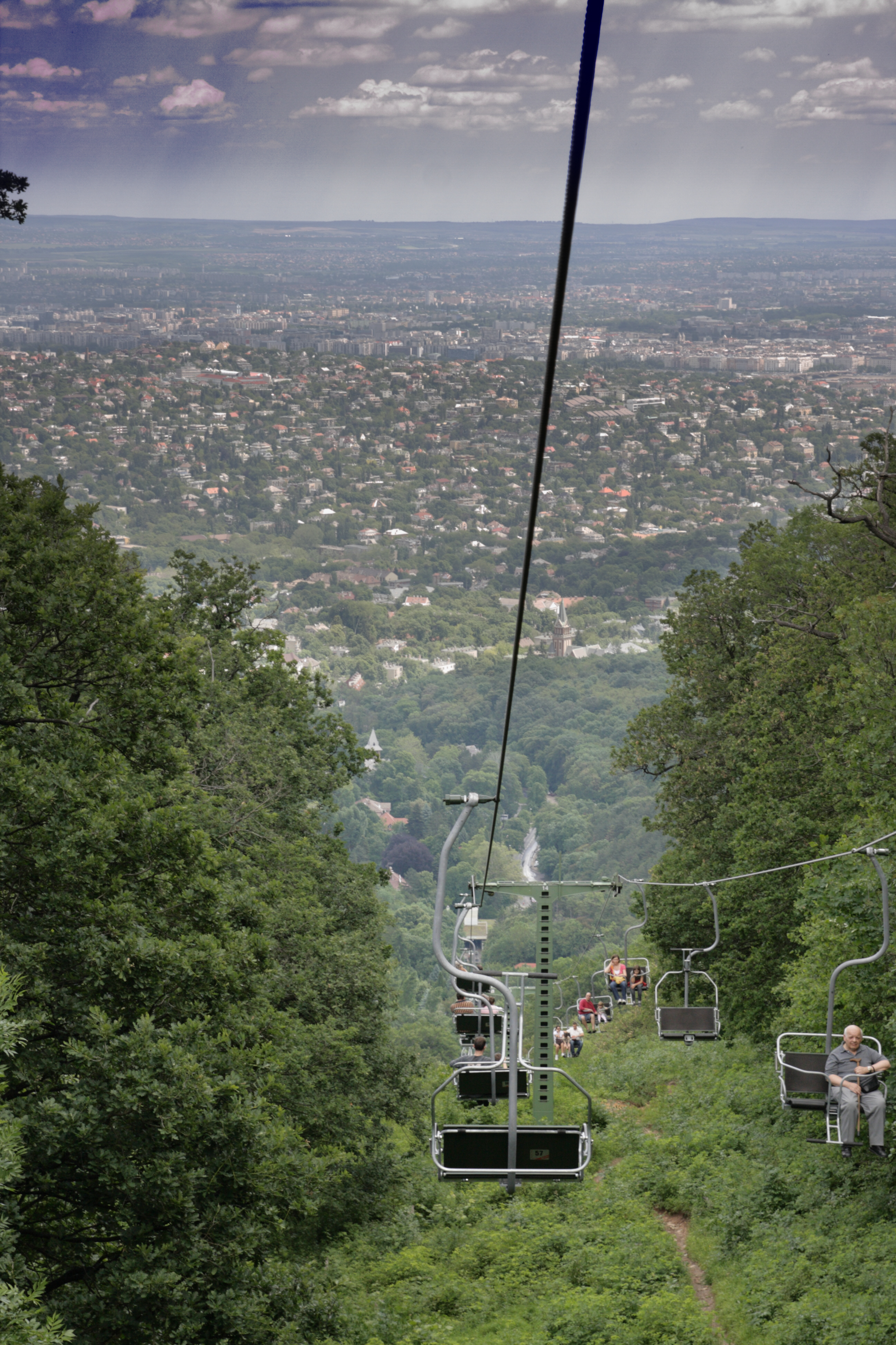 Chairlift in Budapest